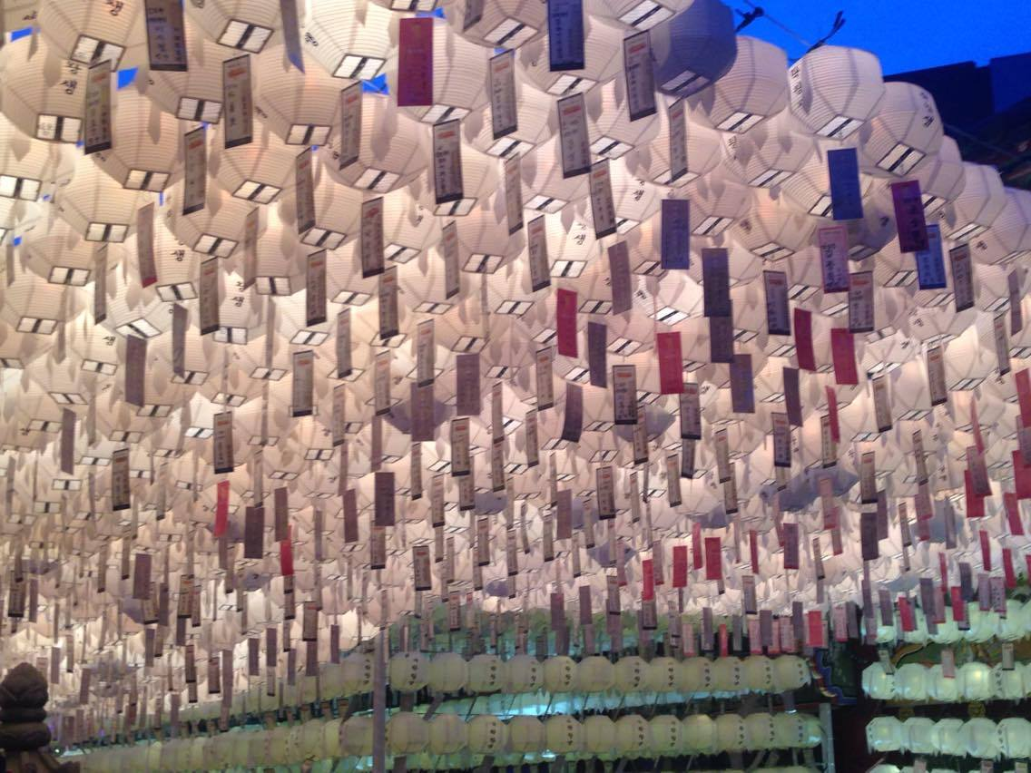 Lanterns in Buddha's Birthday